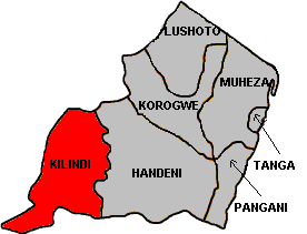 Summary Created by Andrew Coe 16:16, 30 January 2006 Andrewcoe22 276x211 (5024 bytes) (Created by Andrew Coe)